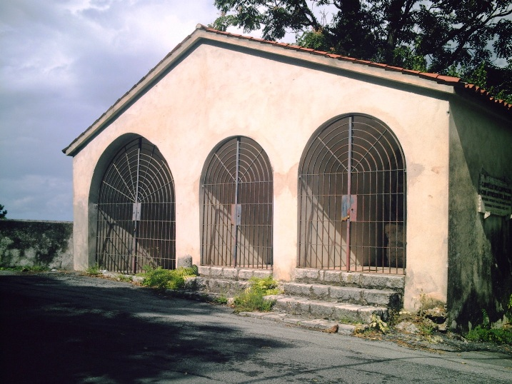 chapels of cappuccini in Maratea